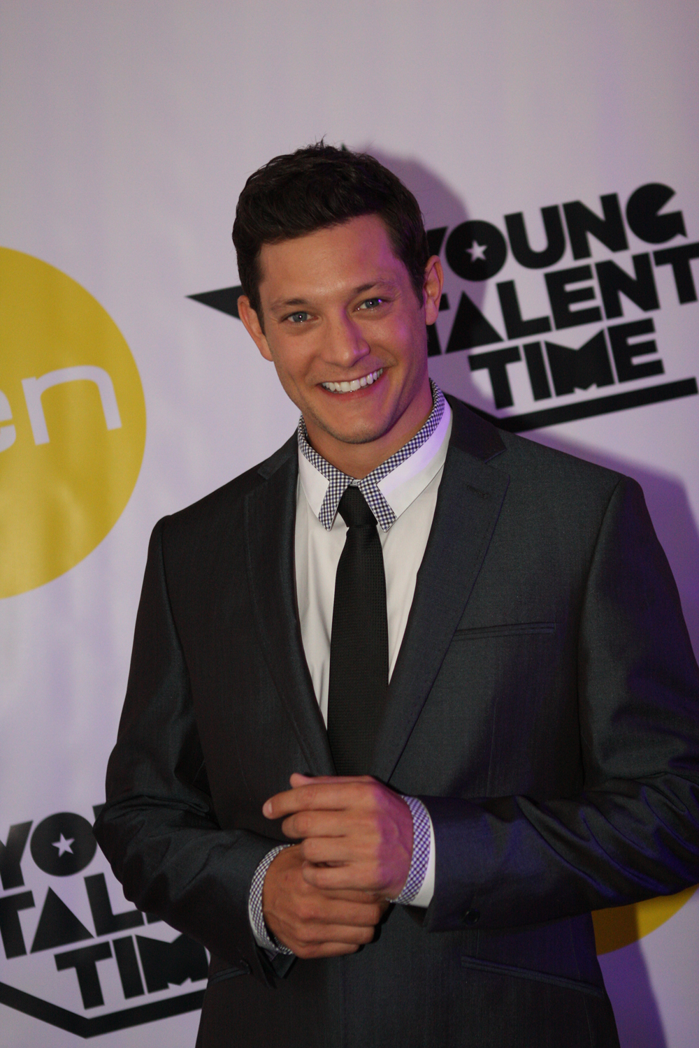 Young Talent Time Media Event At Luna Park Sydney Young Talent Time hits Australian television this Sunday night and we're fired up to watch it. The show is a revamp of the hit 80s talent show that helped make talent such as Dannii Minogue and Tina Arena household names. You'll be glad to hear that Tina is back as a judge on the new show, alongside Chucky Klapow and host Rob Mills. The show will feature a core group of ten young singers aged 16 and under who will perform a series of songs each weekend. Australian teens (and many of their parents) are tipped to religiously tune in and Ten thinks they have a real ratings winner on their hands, and we tend to agree. The show might just help find Australia's next answer to Justin Bieber, Selena Gomez, Cody Simpson and Miley Cyrus? There are no contestants in the first episode, as the show looks back on its long history and presents the new YTT Team. Four contestants will compete in the show from the second week. YTT includes a live band under Musical Director John Foreman, with live singing and performing. In a new and creative promo you see YTT youngsters performing 'Jumpstart' and its rather catchy stuff. The new YTT Team are: Georgia-May Davis (aged 16, Sydney) Adrien Nookadu (aged 15, Sydney) Lyndall Wennekes (aged 15, Sydney) Tia Gigliotti (aged 15, Sydney) Tyler Wilford (aged 14, Melbourne) Sean Emmett (aged 14, Sydney) Serena Suen (aged 13, Sydney) Michelle Mutyora (aged 13, Sydney) Nicholas Di Cecco (aged 12, Sydney) Aydan Calafiore (aged 11, Melbourne) Special thanks to Brooke and the team at Network Ten for helping things go so smooth for us. Young Talent Time premieres on Sunday January 22 at 6.30pm on Channel Ten. Websites Young Talent Time official website Network Ten Luna Park Sydney Eva Rinaldi Photography Flickr Eva Rinaldi Photography Music News Australia